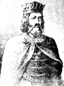 Stefan Nemanja, Stefan I Nemanja